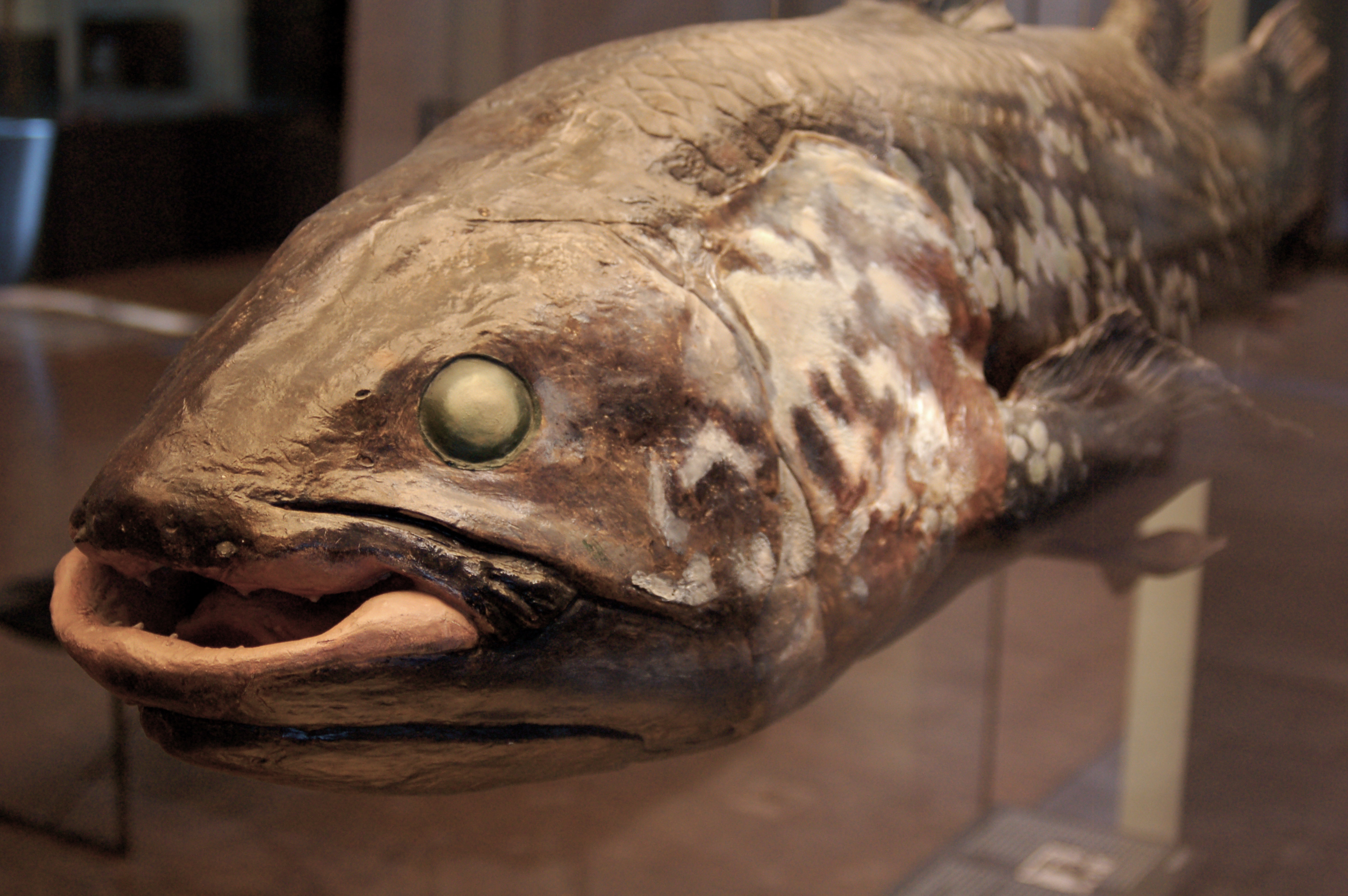 A stuffed Coelacanth at ETH University, Zurich